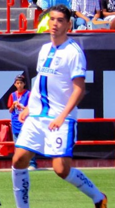 Mexican player Michel Vázquez